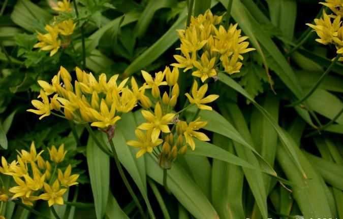 Allium moly: Flowers and leaves.